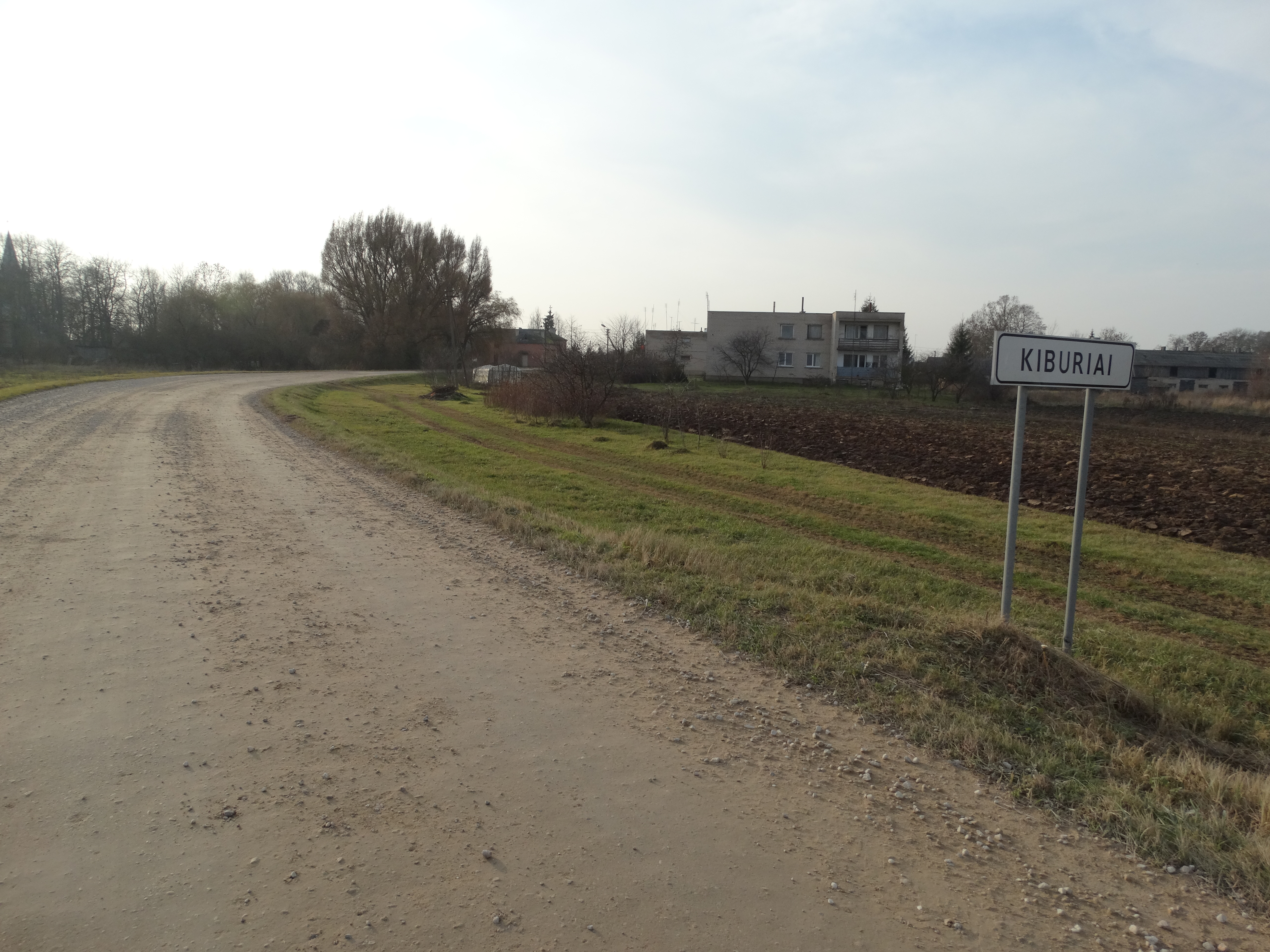 Kiburiai, Pasvalys district, Lithuania